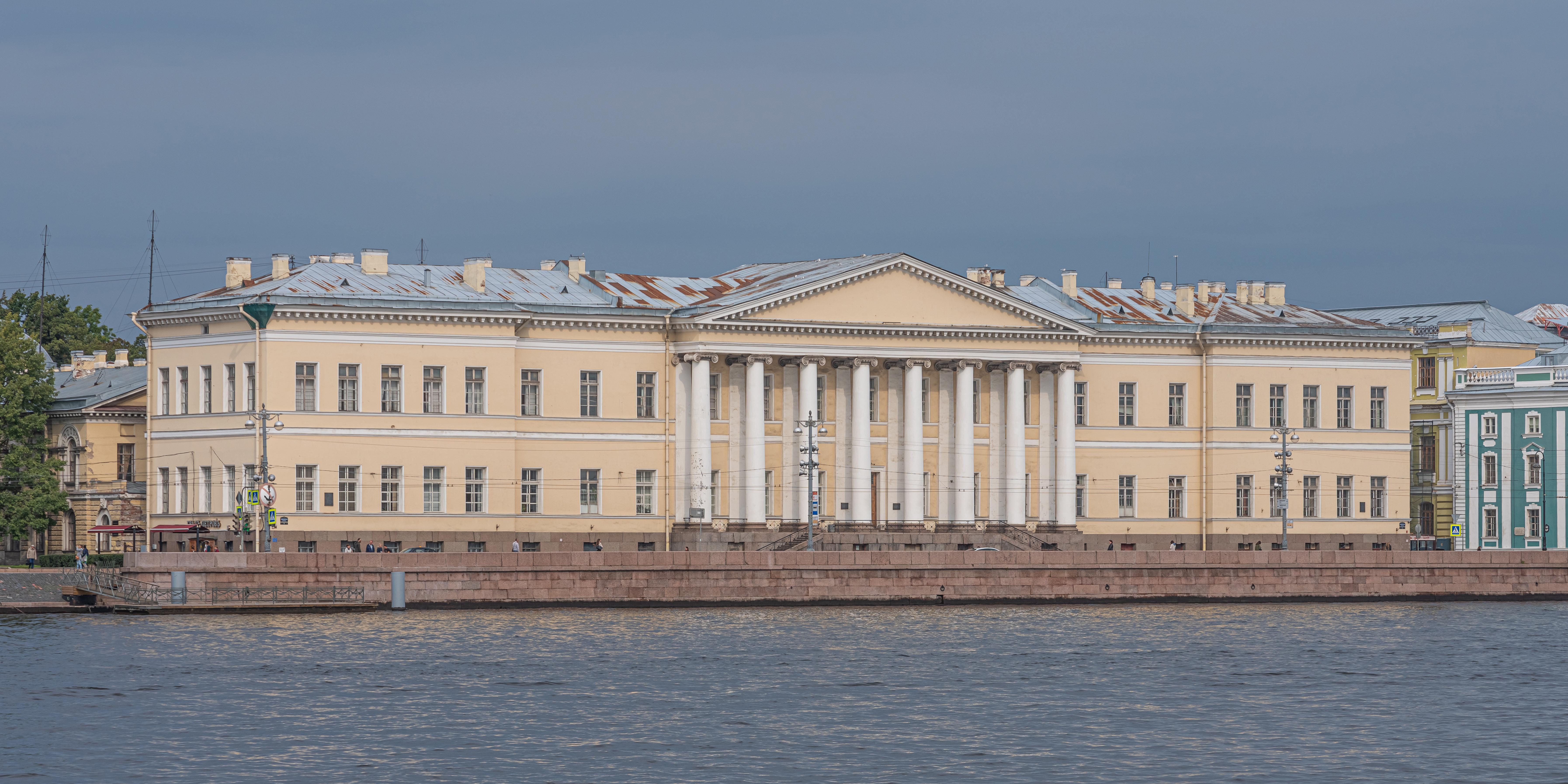 Building of the Russian Academy of Sciences on Vasilievsky Island in Saint Petersburg, Russia